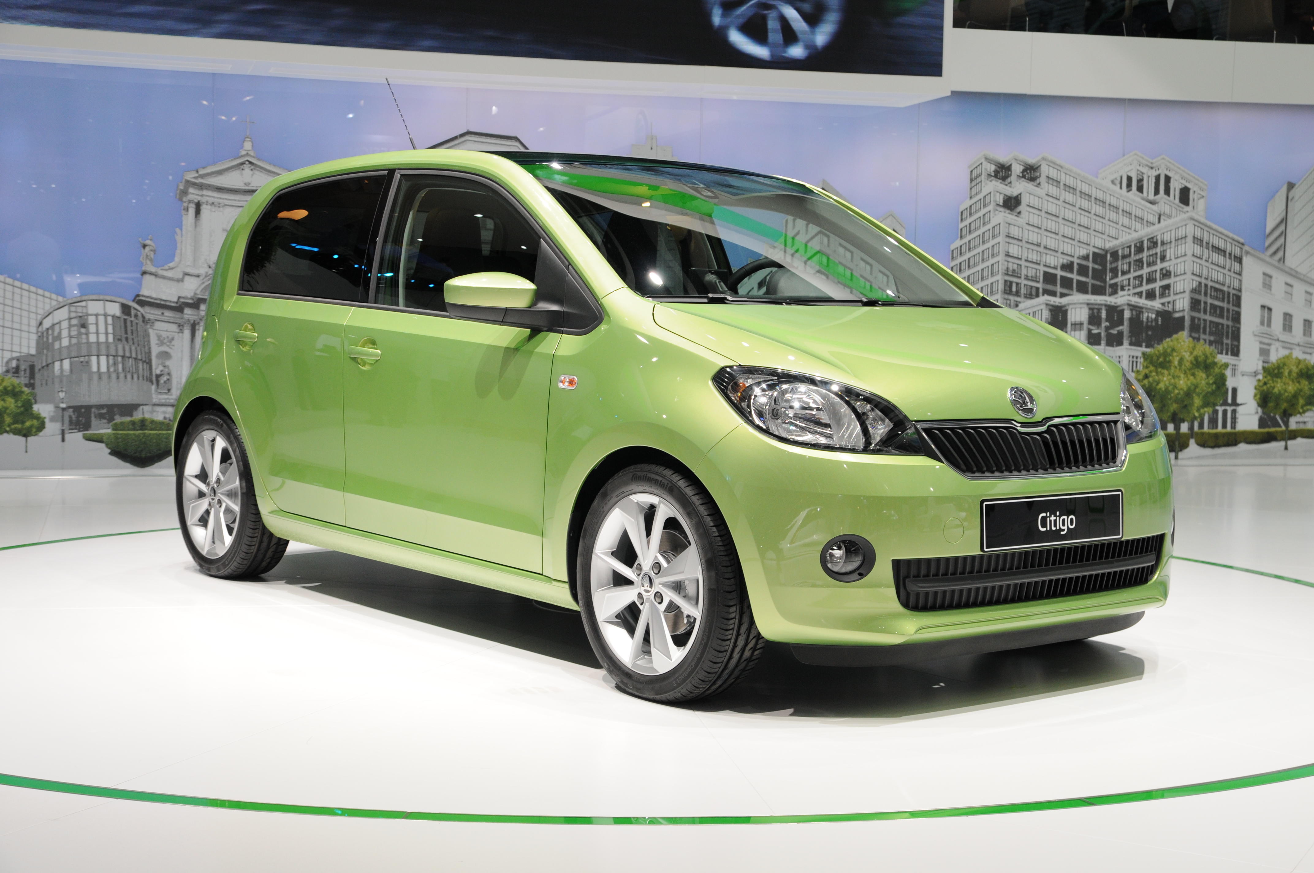 Geneva Motor Show 2012 (photos taken on the second press day)